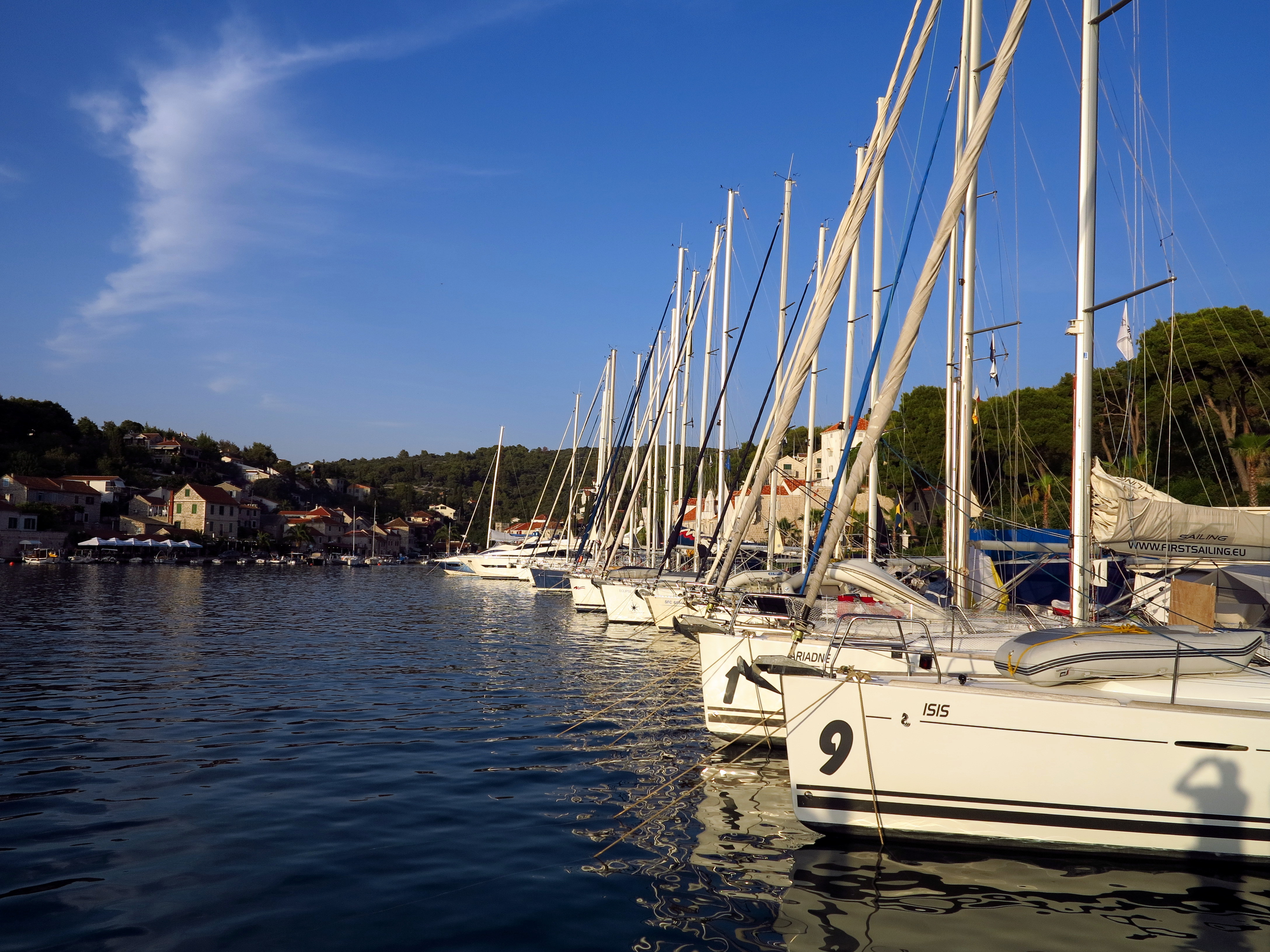 The Marina of Maslinica on the island Šolta / Croatia / Adriatic Sea.